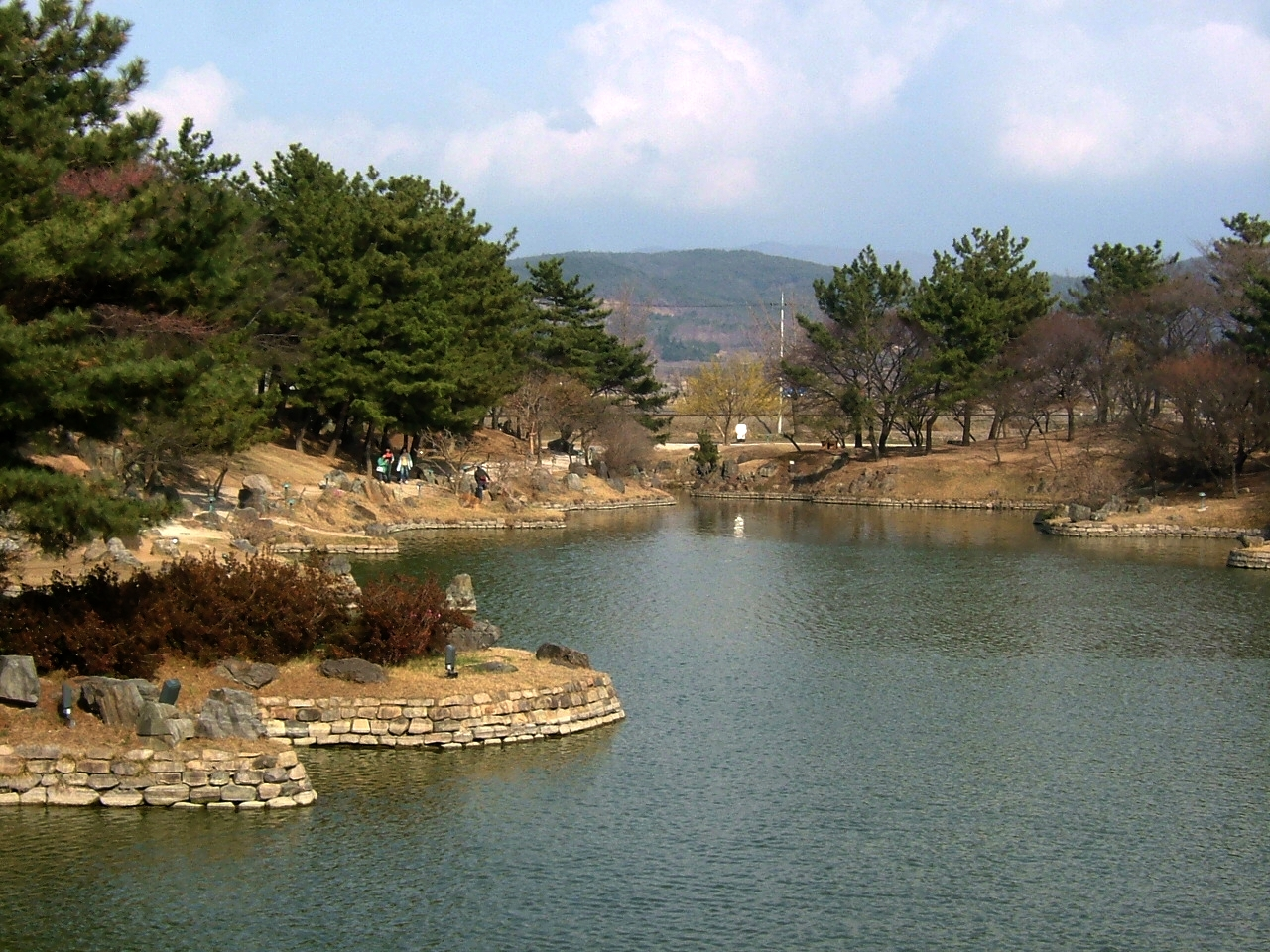 This is a photo of the Anapji Pond in Gyeongji City, South Korea, that I took with a digital camera on 24th March 2006.